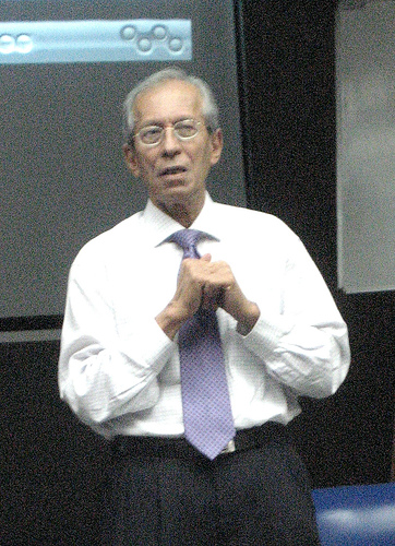 Mr.Bradman Weerakoon delivering a talk on a right's based approach to Sexual Rights for a group young people. At the British Council, Colombo.